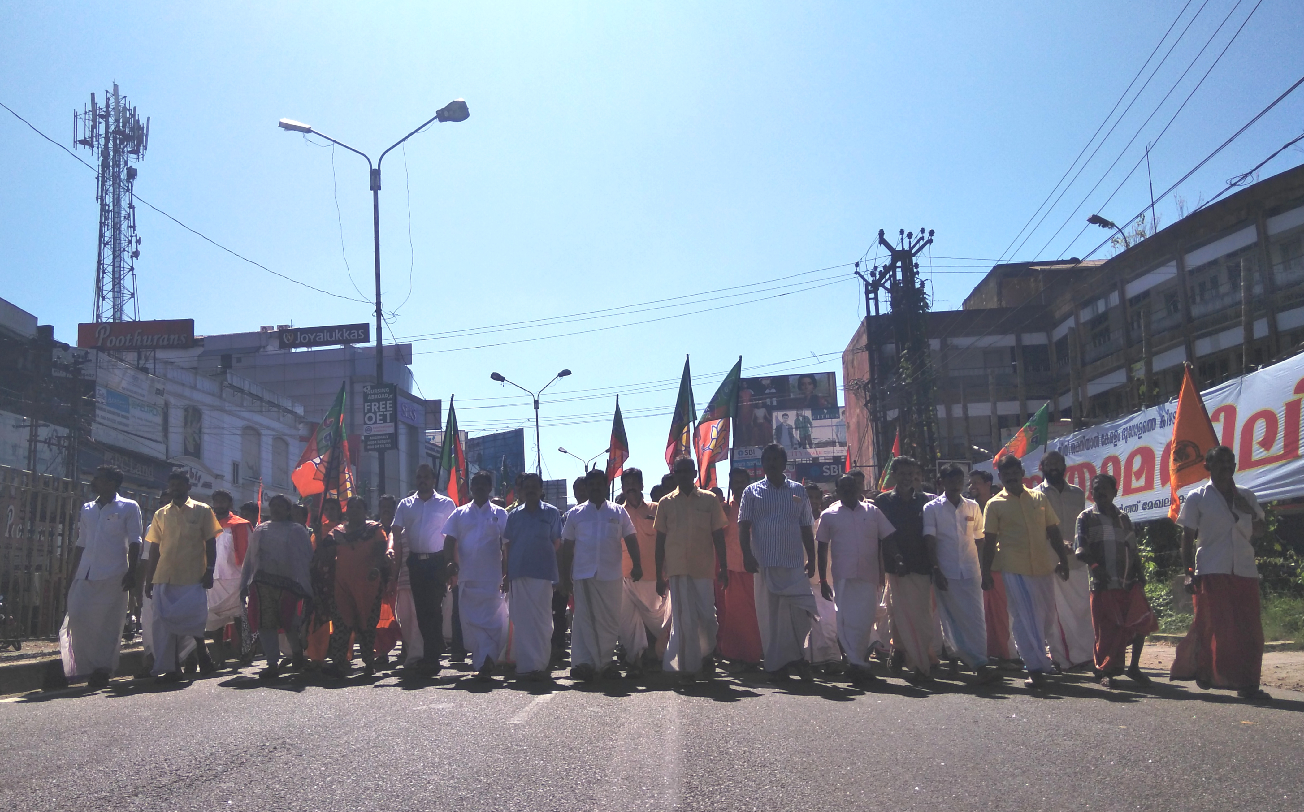 BJP Harthal Protesting against Sabarimala Women Entry at Angamaly